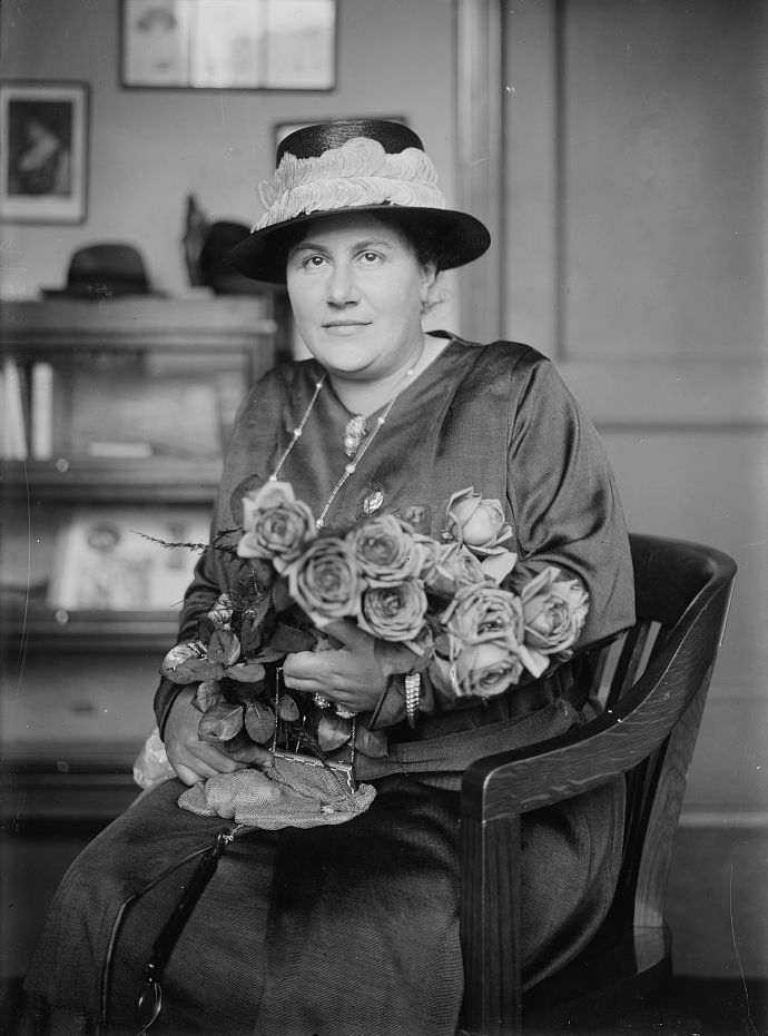 Emmy Destinn with roses in 1919